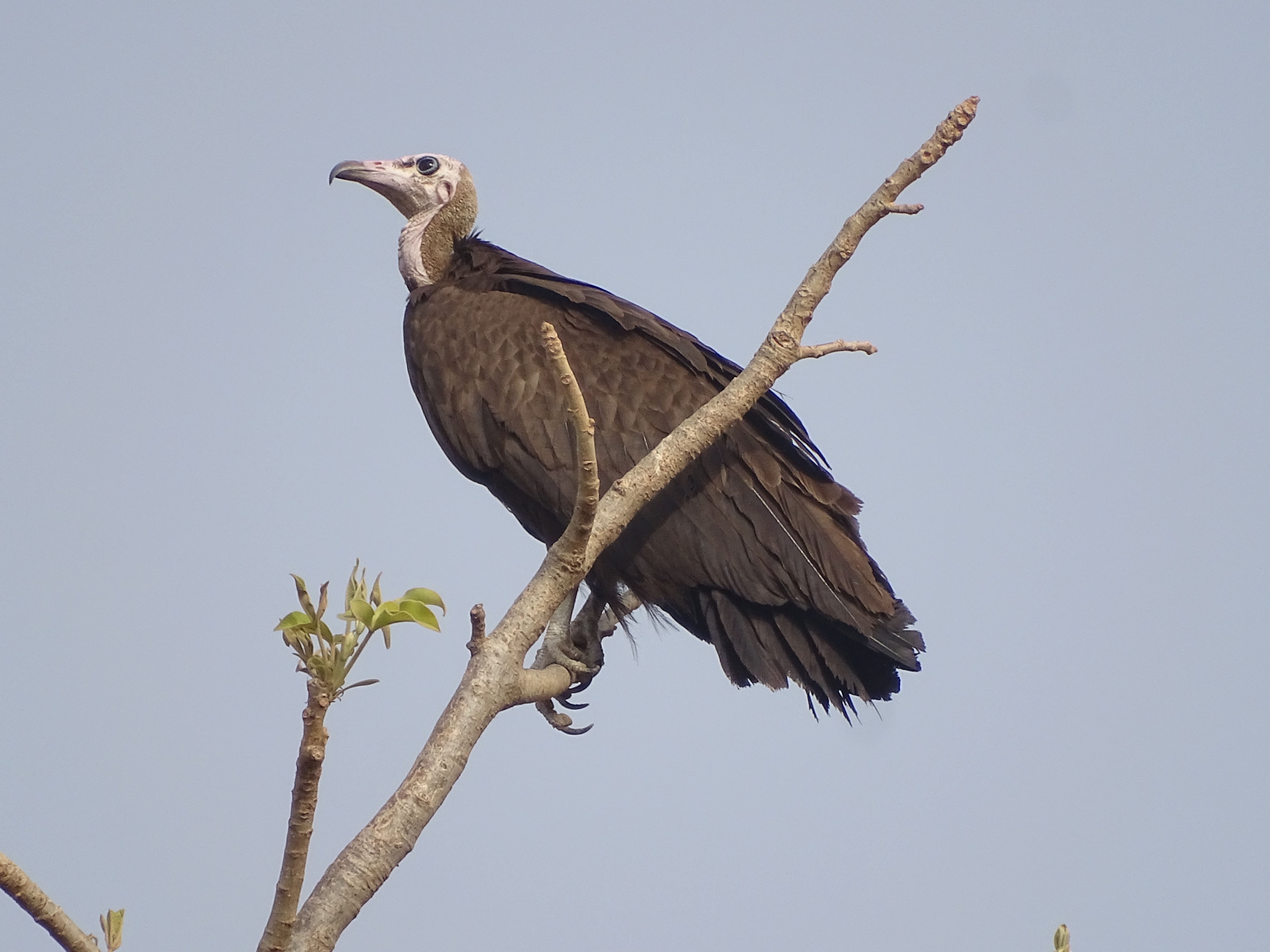 It is one of the smallest old world vultures with a length of 70 cm and an average mass of 2.12 kg. He has a pink stripped head and a greyish cap. It is quite uniformly dark brown. It has wide wings for gliding and short tail. It is a weak species compared to most vultures. It is a scavenger, feeding mainly on dead animals and garbage it spotted flying over the savannah and around human dwellings, including landfills and slaughterhouses. He often travels in a troop and is very abundant. In much of its territory, there are always many visible high in the sky at any time during the day. He is generally not afraid of humans and often meets around homes. He is sometimes referred to as the garbage collector by the locals. In some cultures it is forbidden to eat necrophagous animals whose vulture is part of it. It nests in a nest made of branches placed in a tree (often a palm tree) in a large part of Africa, laying an egg. The population is mostly sedentary. If he is disturbed while in his nest, he squeals. This image was taken around the North Punjari National Park of the country